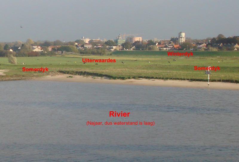 A river-dyke system.